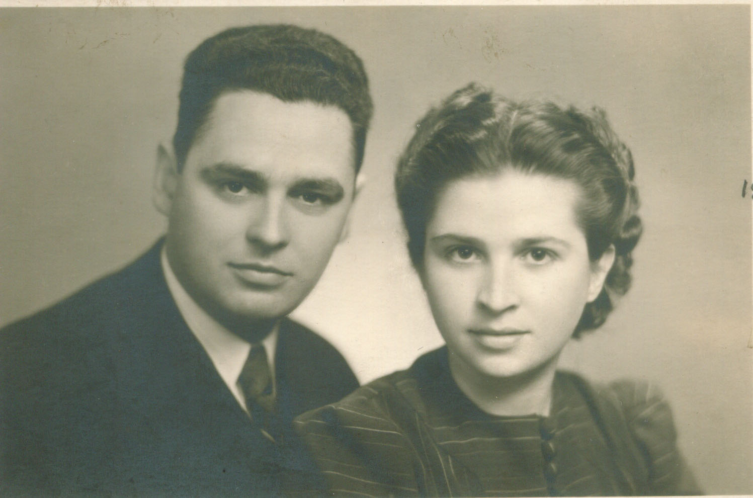 Photograph of the Bulgarian mathematician Academician Boyan Petkanchin and his wife